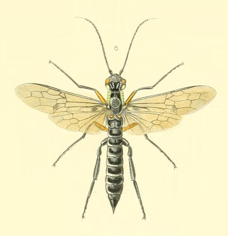 Xeris melancholicus as illustrated by Westwood. Note he called it Sirex melancholicus